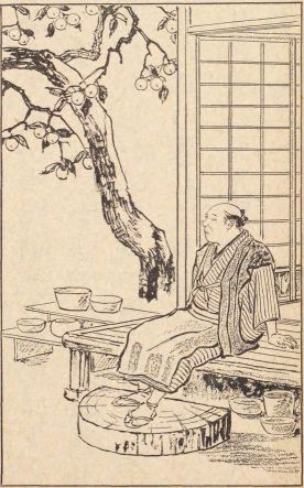 Sakaida Kakiemon I from national language handbook in 1929